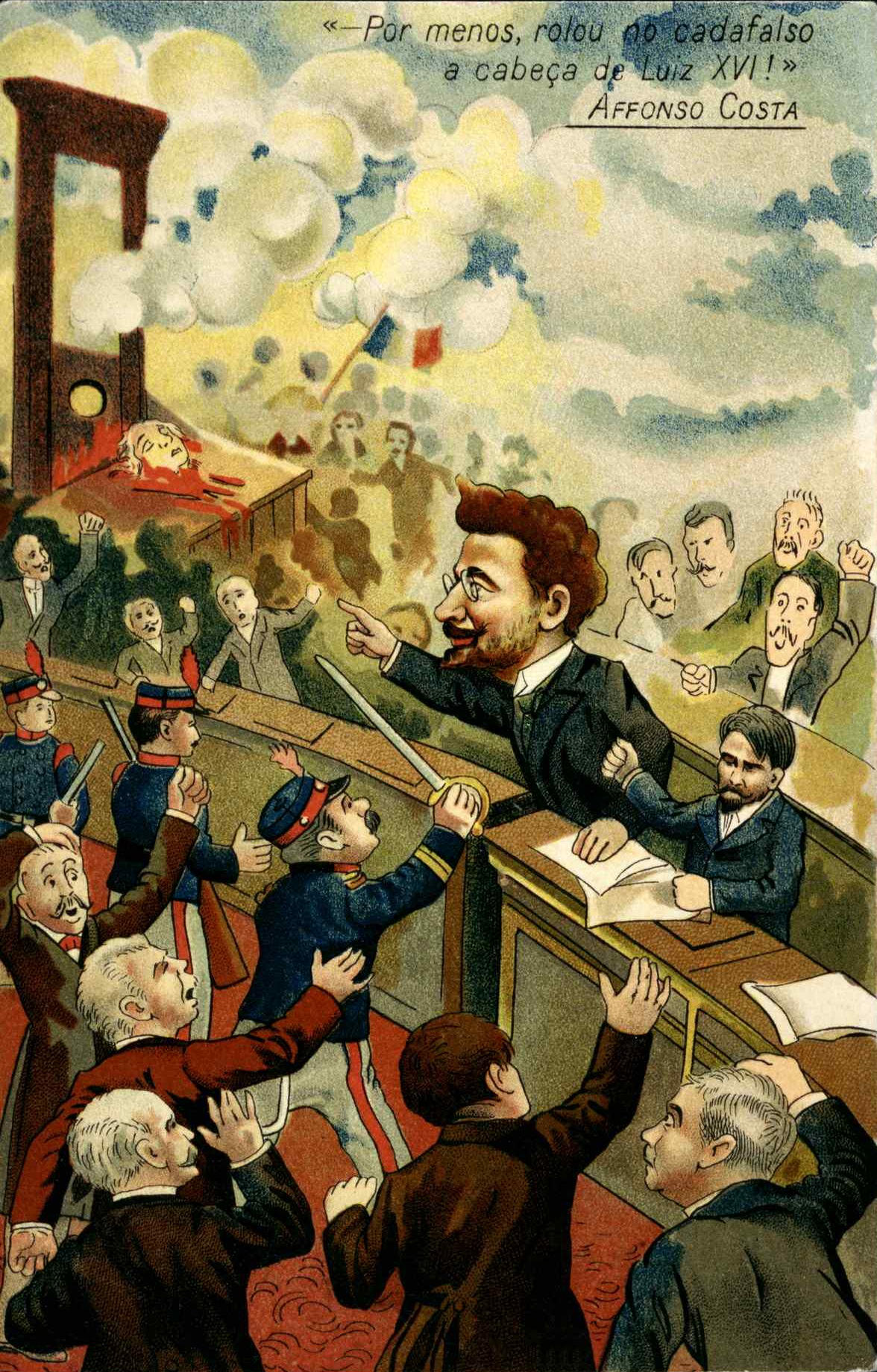 Caricature of Afonso Costa during his 1906 speech before Parliament against the expenditure of the Royal Household. It's inscribed with Afonso Costa's quote: "Por menos, rolou no cadafalso a cabeça de Luiz XVI!" ("For less, the head of Louis XVI rolled on the gallows!")